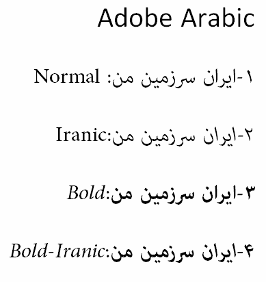 Adobe Arabic font that uses Iranic style